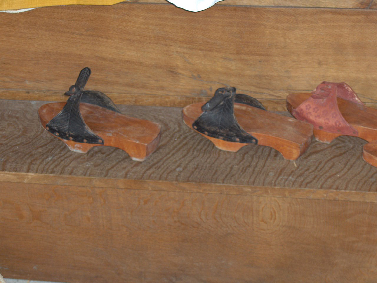 Pattens, overshoes worn under the shoe to keep it clean and dry when outside, c. 1465; at the archeological site of Walraversijde, near Oostende, Belgium